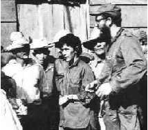 Public and historic image of public. It consists of the archives of the Cuban government and dated from 1958